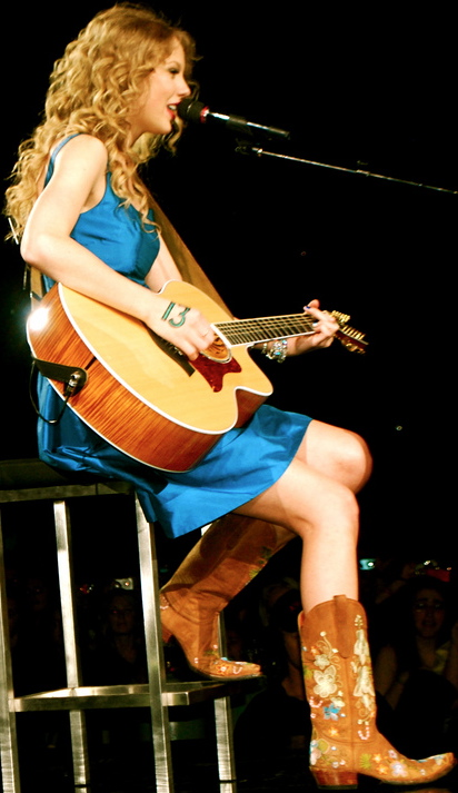 Taylor Swift performing at the Prudential Centre in May 2010 as part of the Fearless tour